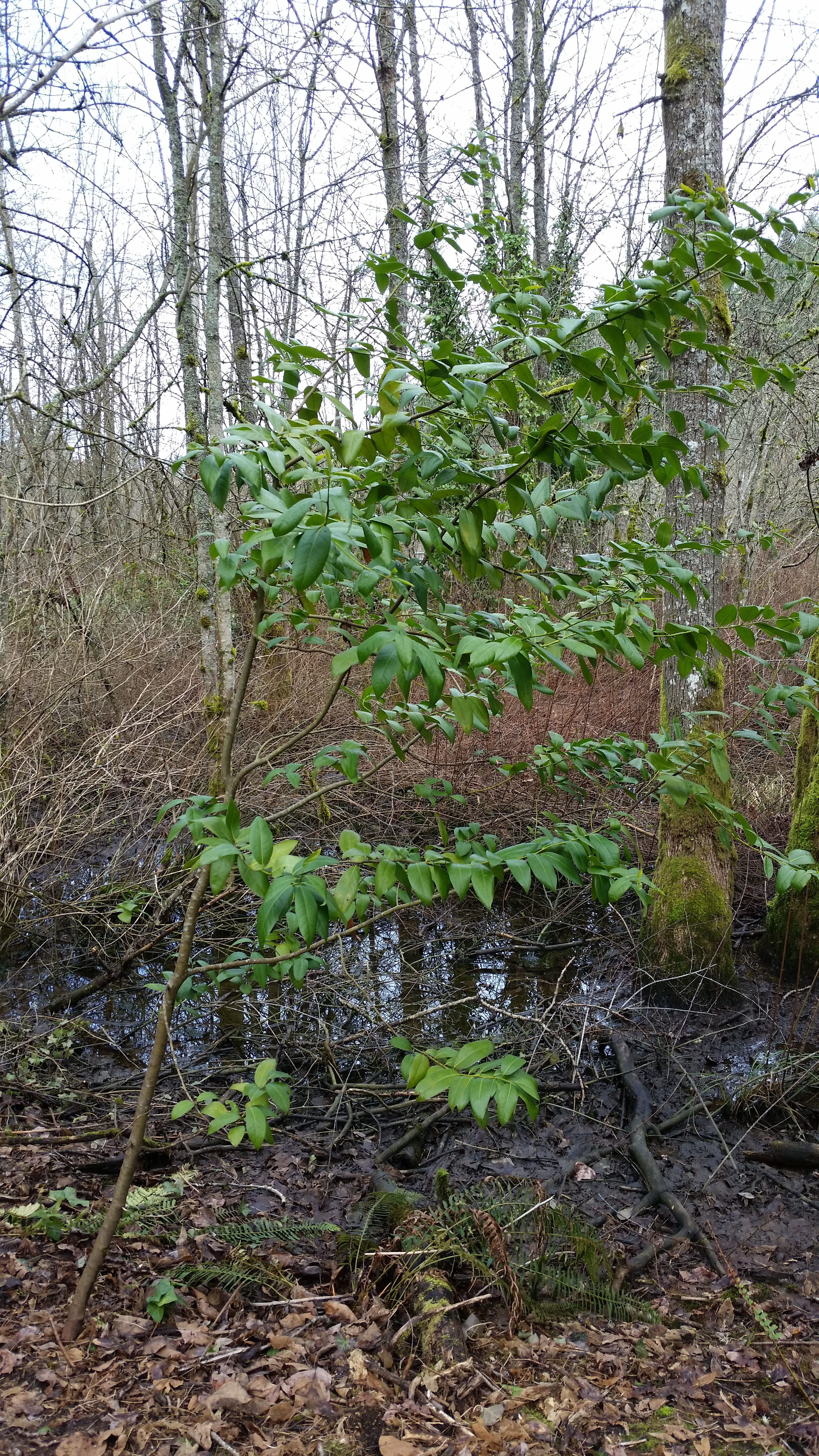 California bay laurel tree (Umbellularia californica) found near Snake Lake in Tacoma, WA in Snake Lake Park.